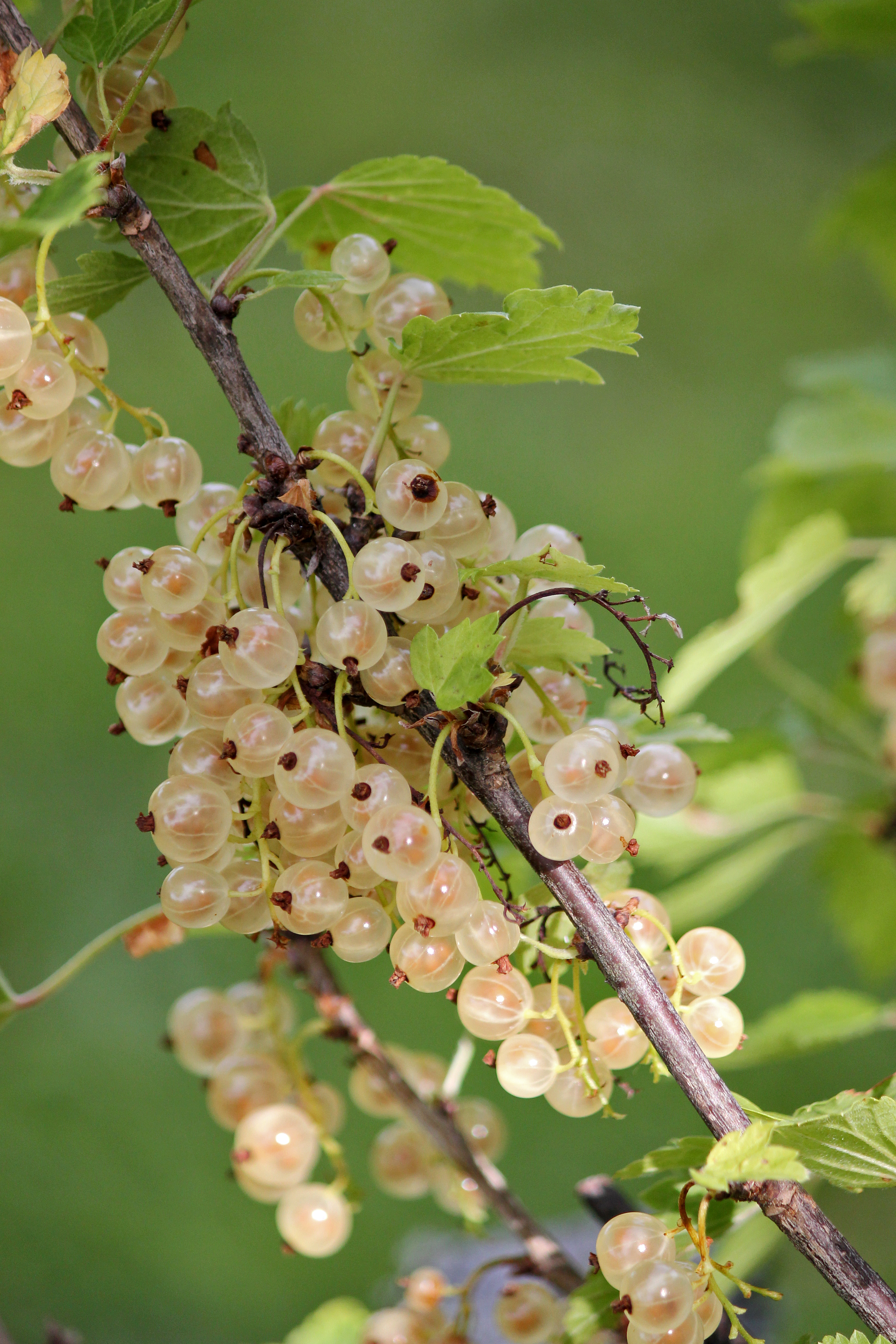 Whitecurrant (Ribes rubrum)